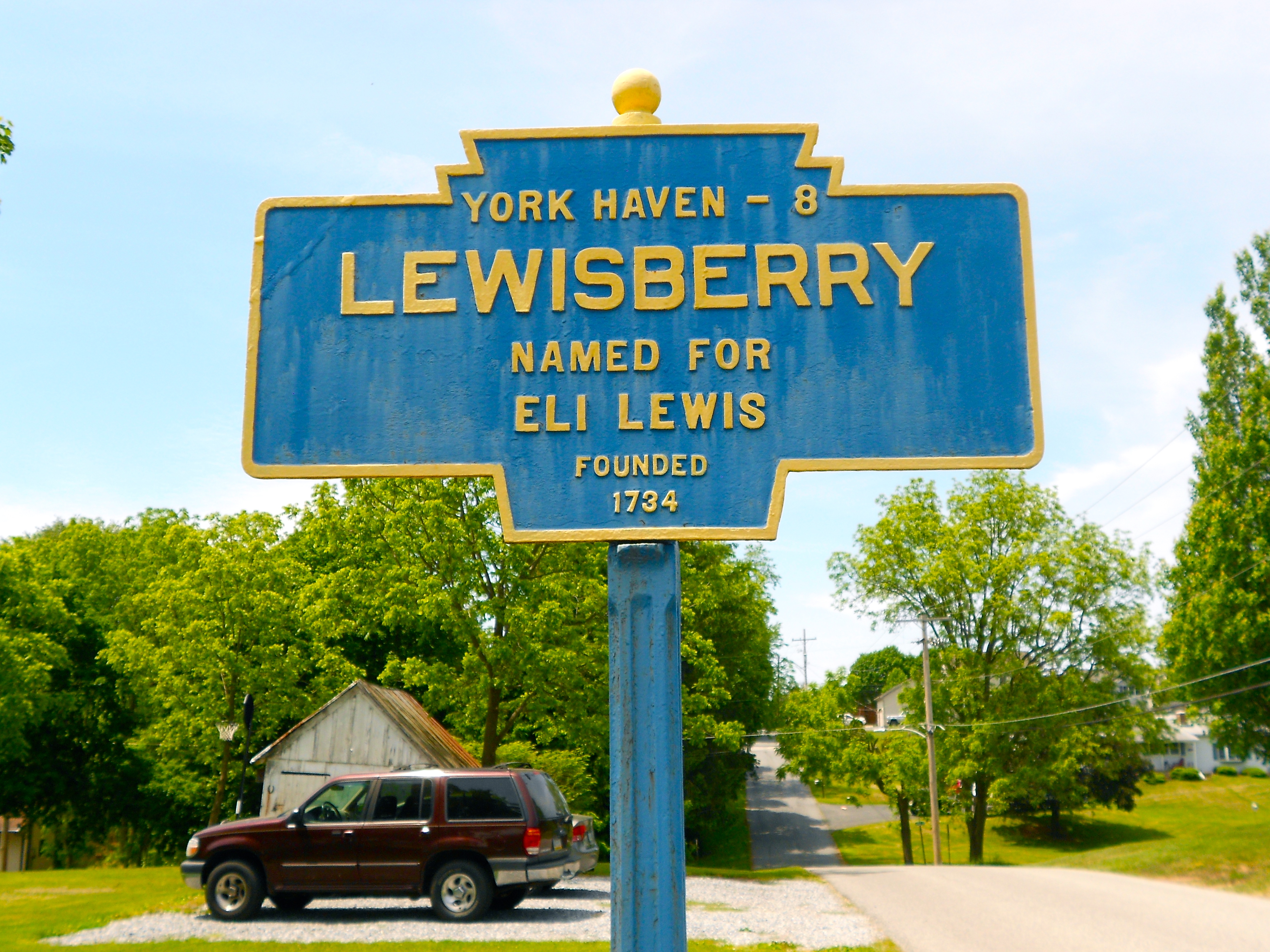 Keystone sign in Lewisberry, Pennsylvania